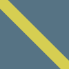 WW1 divisional patch (Yellow stripe on blue) for the British 5th Infantry Division.